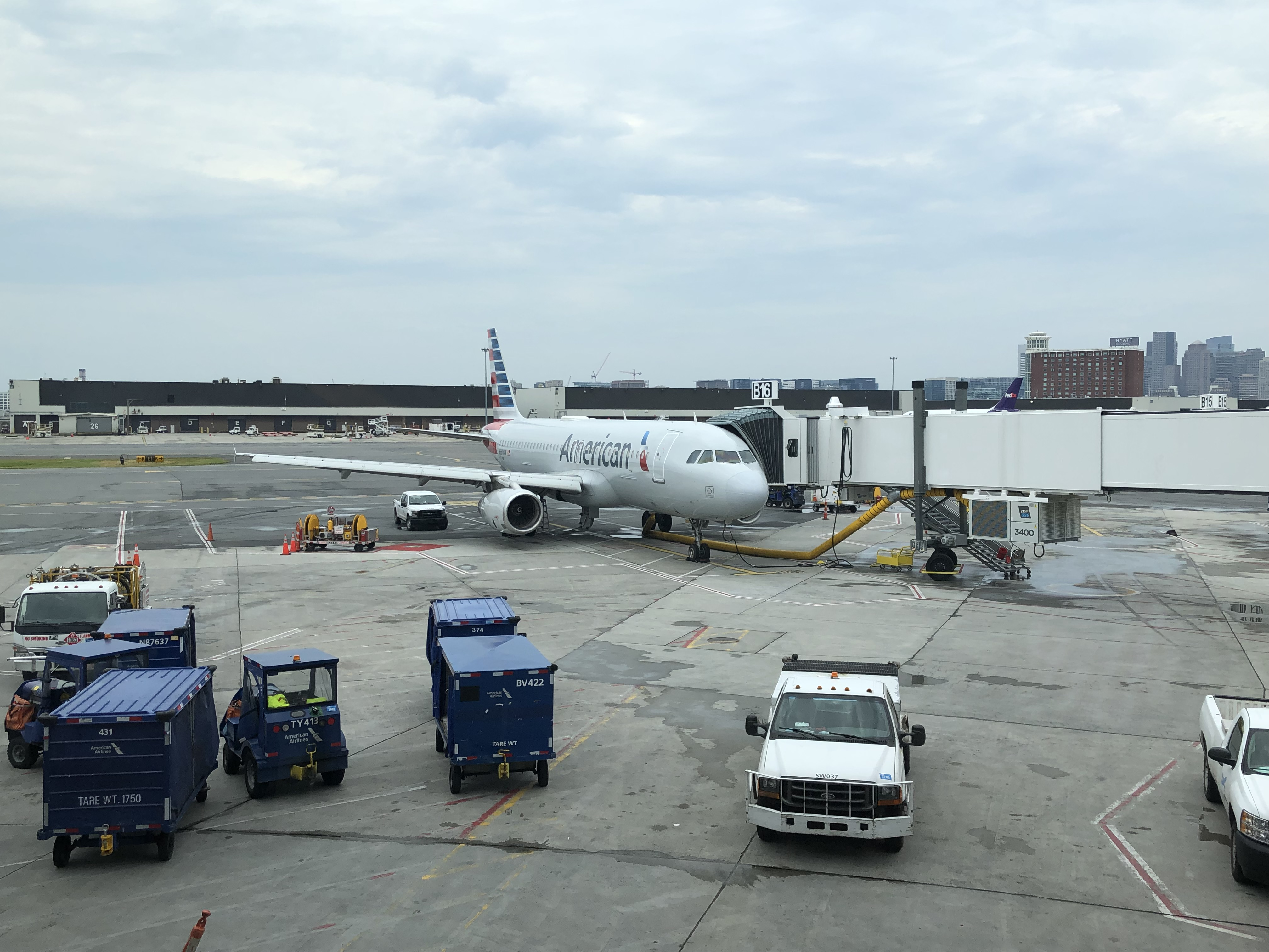 View of American Airlines jet from Terminal B